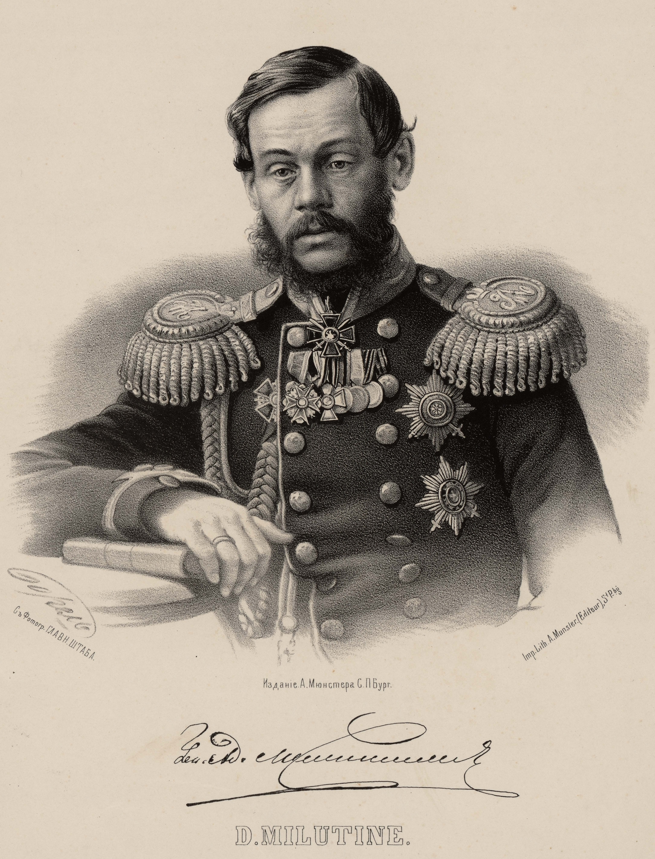 Dmitry Milyutin